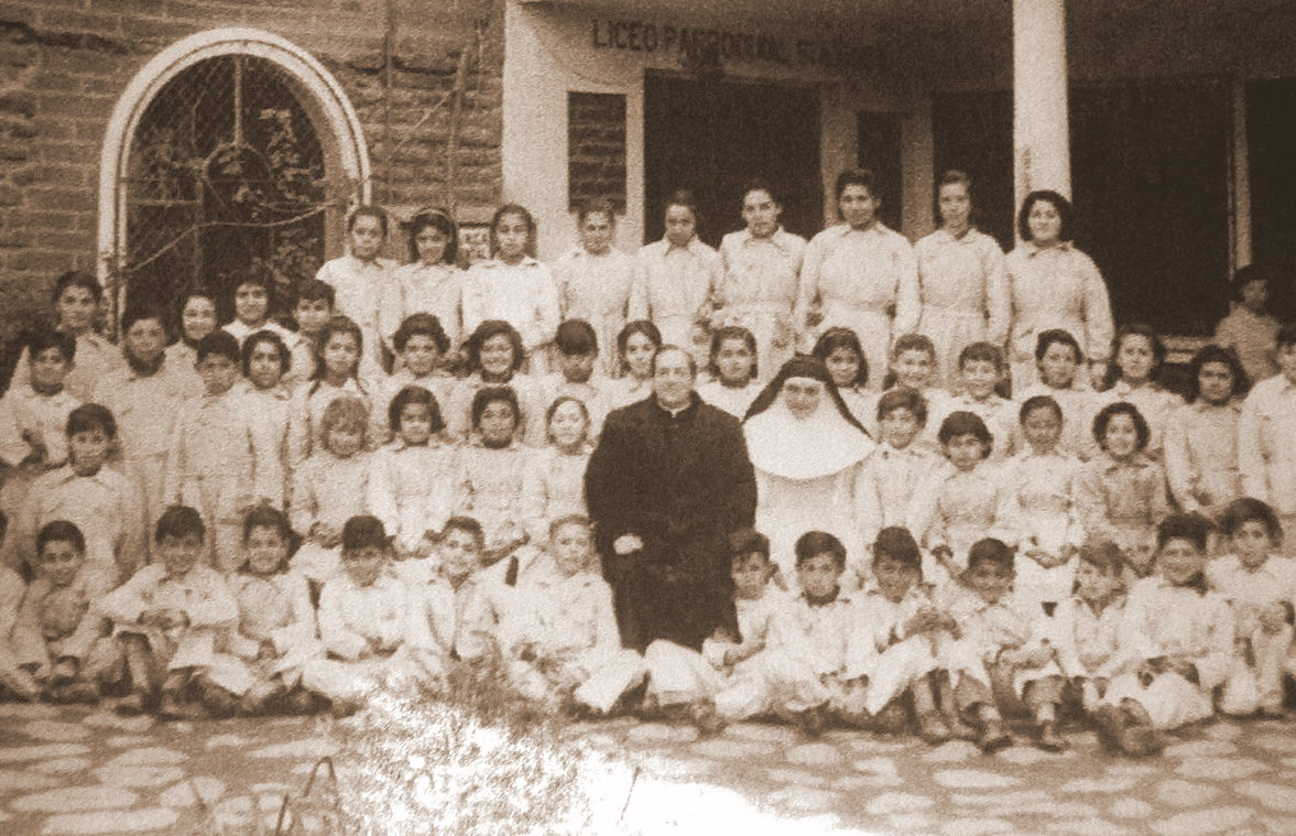 Catholic priest Alfredo Artega Barros Lo Barnechea